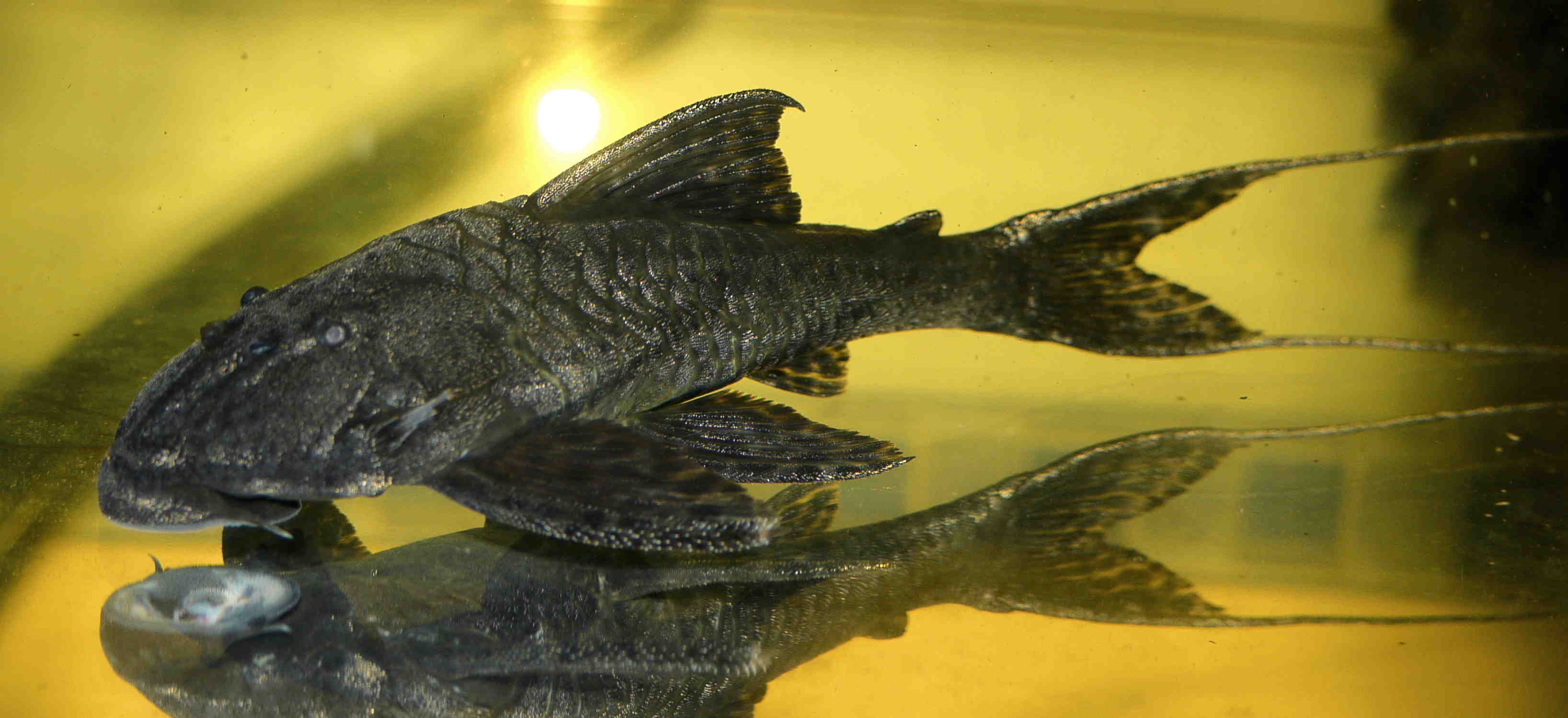 An aquarium adjusted Heminancistrus pankimpuju, exhibiting extended caudal filaments.